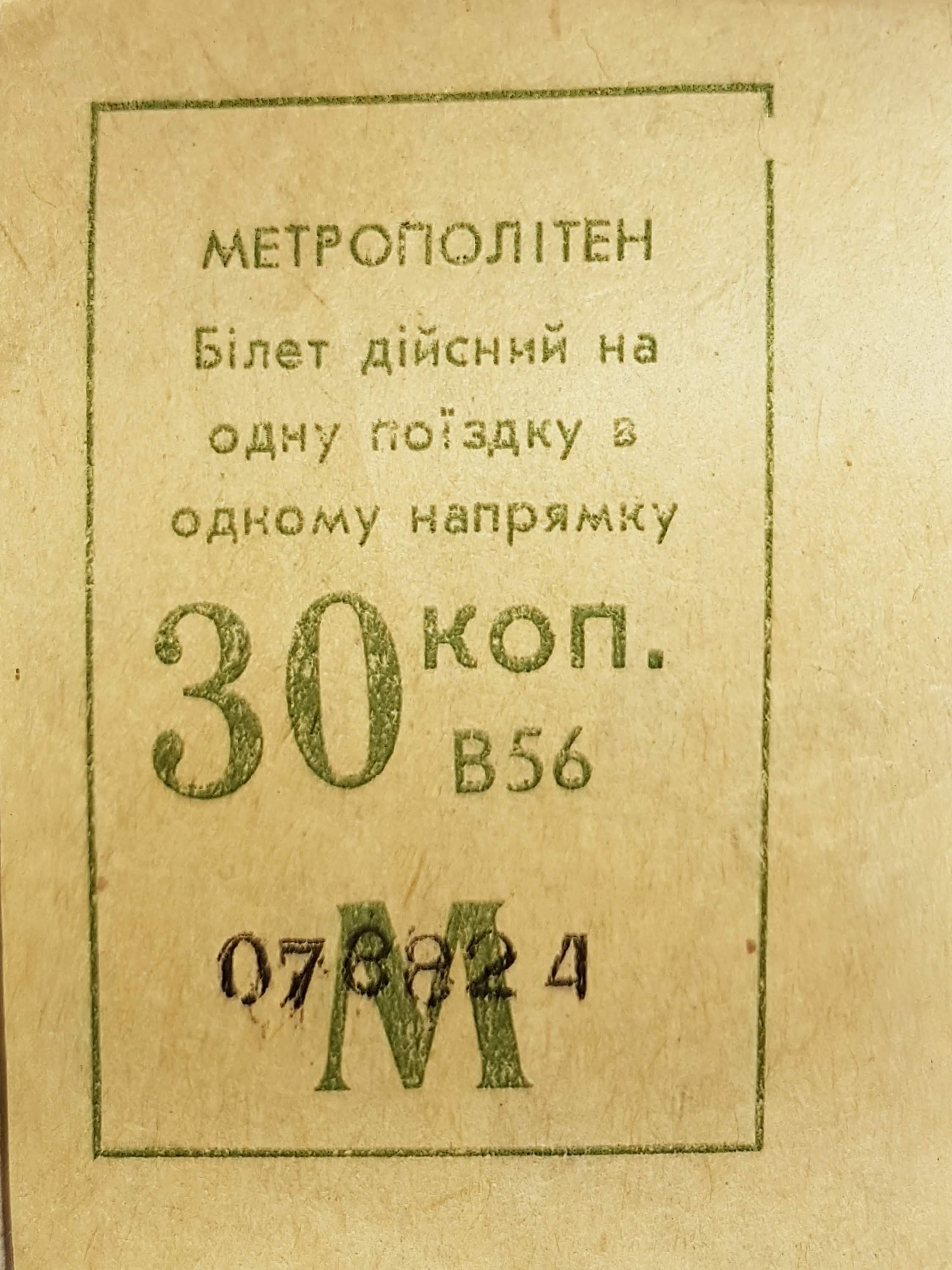 Kyiv Metro ticket Febuary 1992